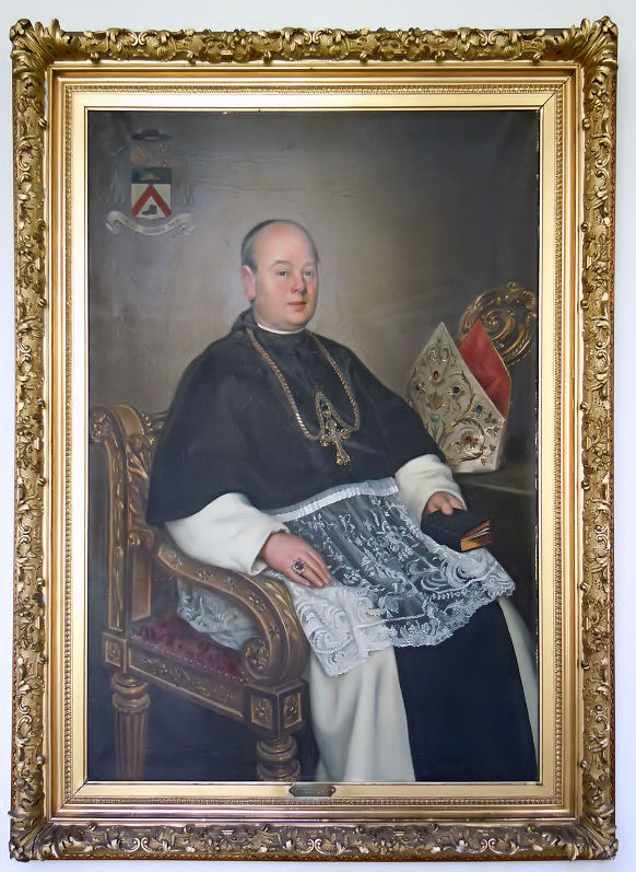 Constantinus (Thomas) Schoen, O. Cist. (1861–1934) was a Belgian Cistercian abbot. He was abbot during the First World war, during his abbatiate the abbey suffered serious attacks. In 1914 he evacuated important patrimony to Antwerp.[1] − − Schoen was born in Steenbergen on 24 January 1861. He entered Saint Bernard Abbey in Bornem, Belgium, where he was elected abbot in 1901, in succession to Amadeus de Bie, serving until 1934. He built the hospital wing and the archives.[2] In 1924 he ordained Franciscus Janssens Abbot of Pont-Colbert. − He had his portrait painted by Jean-Baptiste Anthony (1854-1930). Schoen died in the abbey in 1934 and was succeeded by Godefridus Indewey.